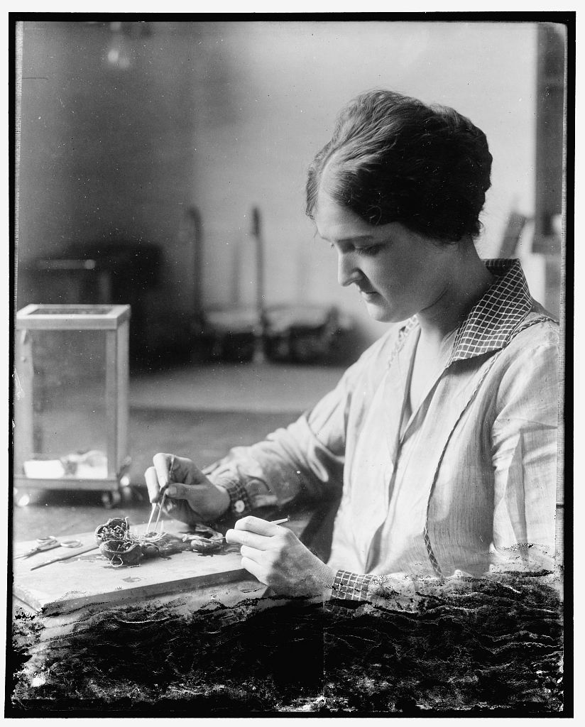 Trying to improve nation's poultry. Dr. Eloise Blaine Cram has the important task of trying to rid the poultry of the United States of parasites. Dr. Cram is in charge of the parasites of poultry section of the zoological division, Bureau of Animal Industry, of the U.S. Department of Agriculture. The photograph shows her making one of her experiments, November 18, 1930